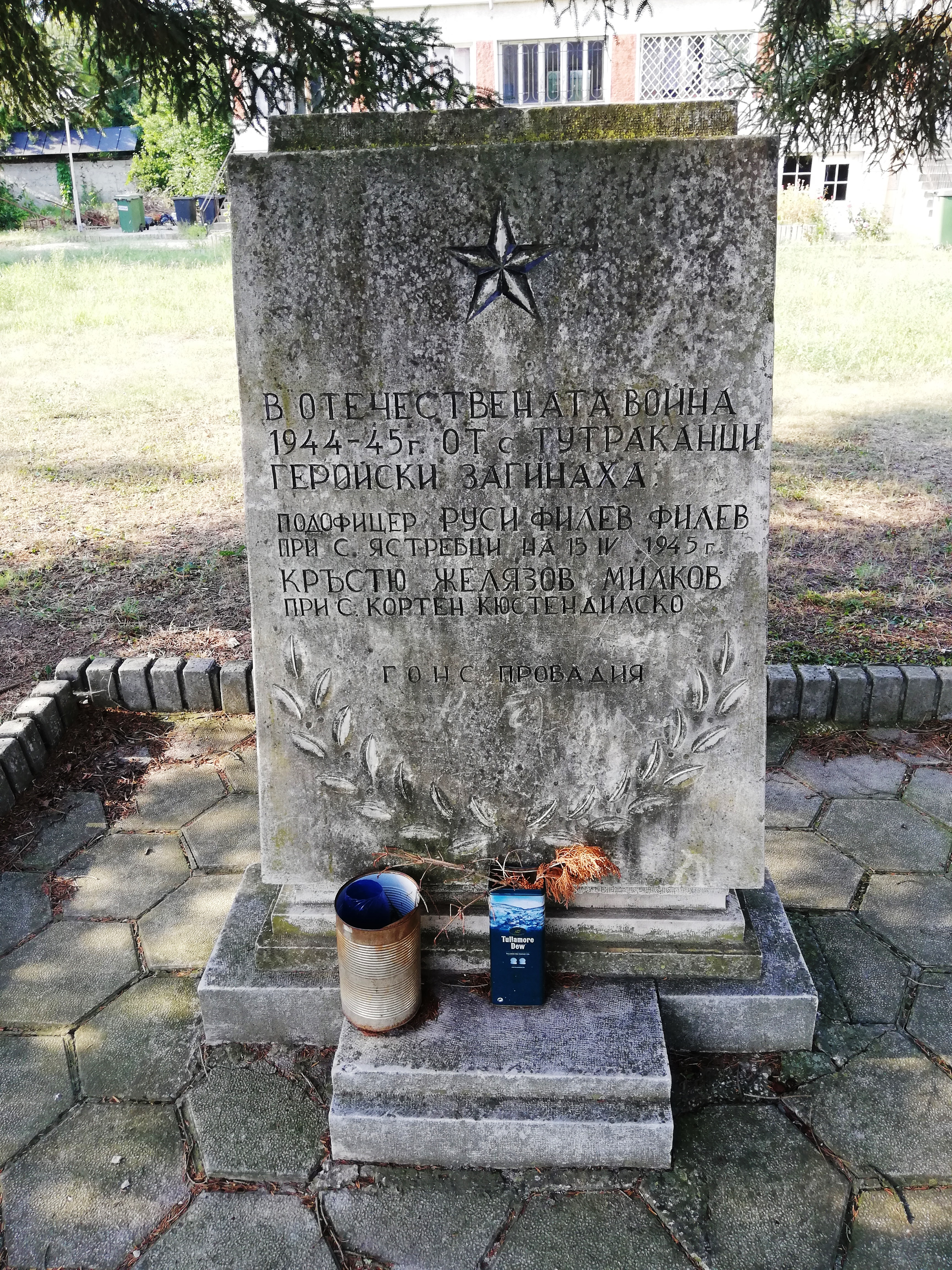 Memorial in Tutraknatsi, Varna Province